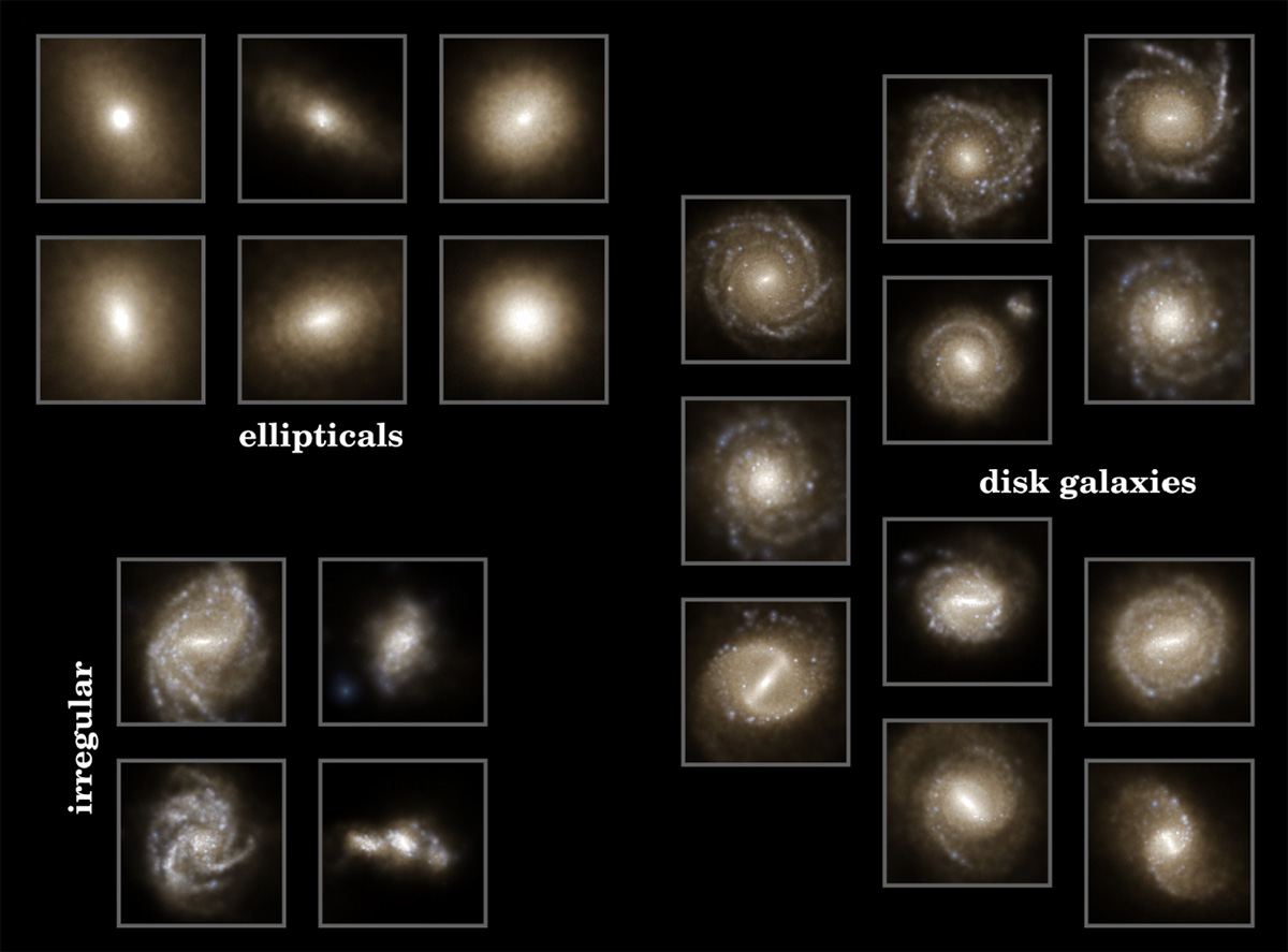 Illustris Galaxien